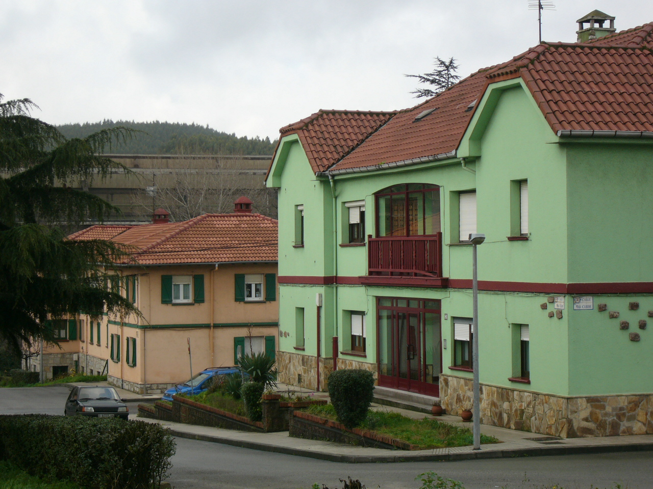 Workers' houses of ENSIDESA (iron and steel factory) in Trasona (Asturies - Spain)